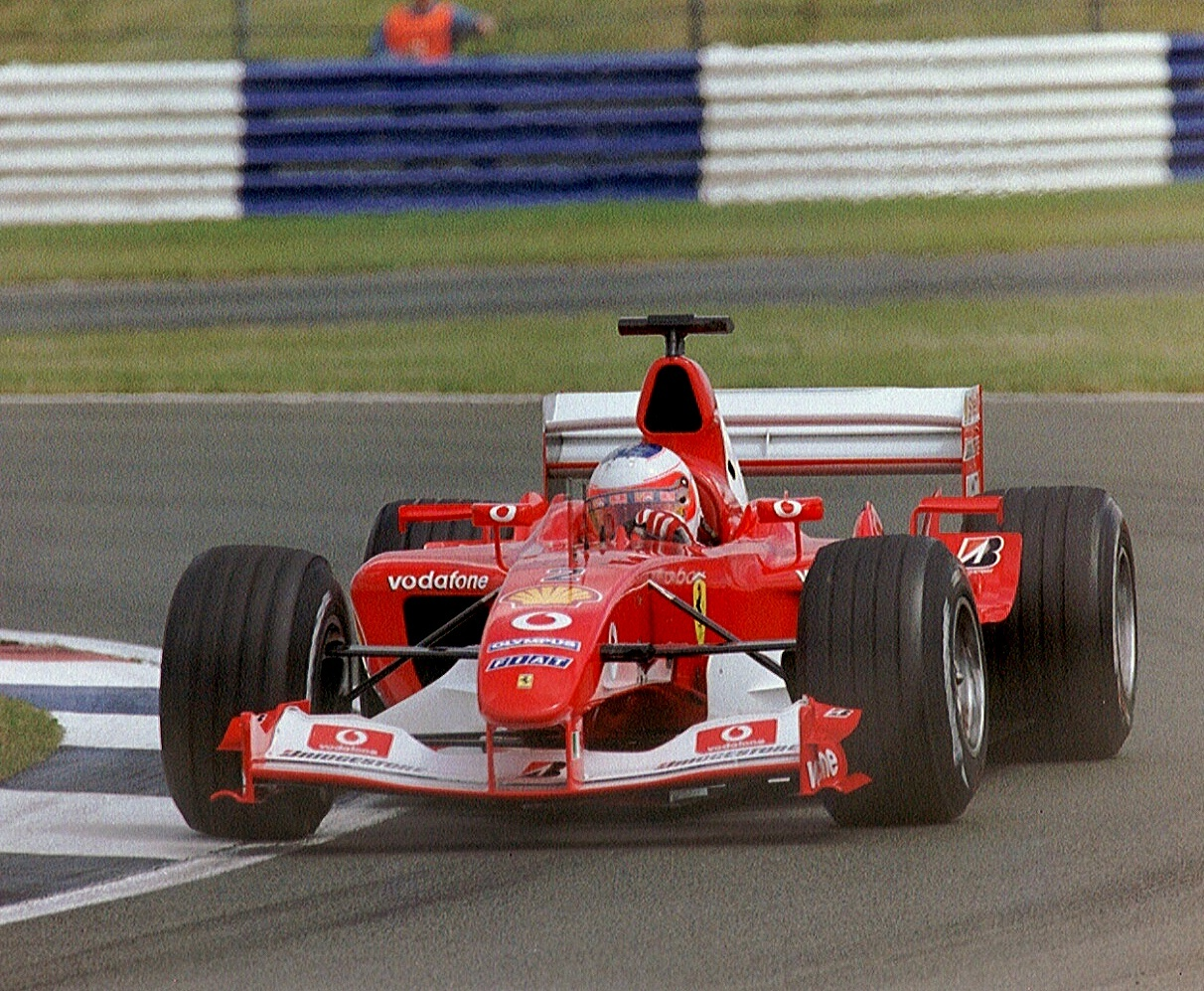 Rubens Barrichello, driving his Marlboro Ferrari at the 2003 British Grand Prix.